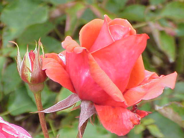 Species: Rosa sp. Family: Rosaceae Cultivar: Duftwolke Image No. 89